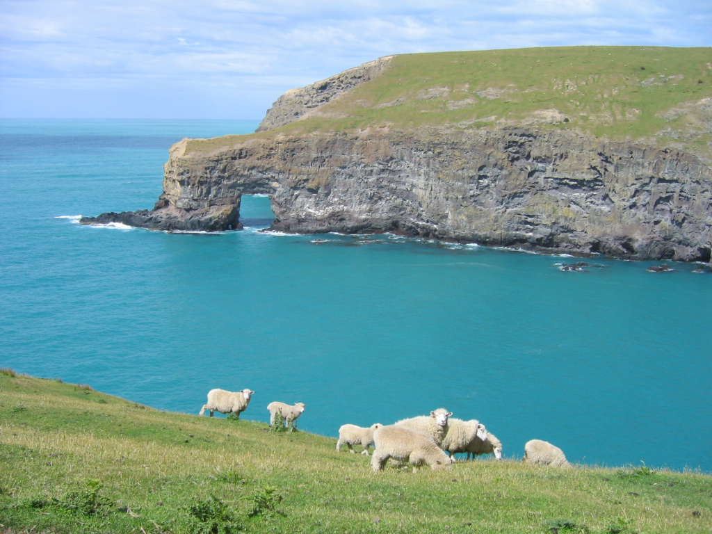 Sheep on the Banks Peninsula Track, Canterbury, New Zealand. Shows the arch at Sleepy Bay. The arch partially collapsed in the 2010 Canterbury earthquake and the remainder fell into the sea about a month later.